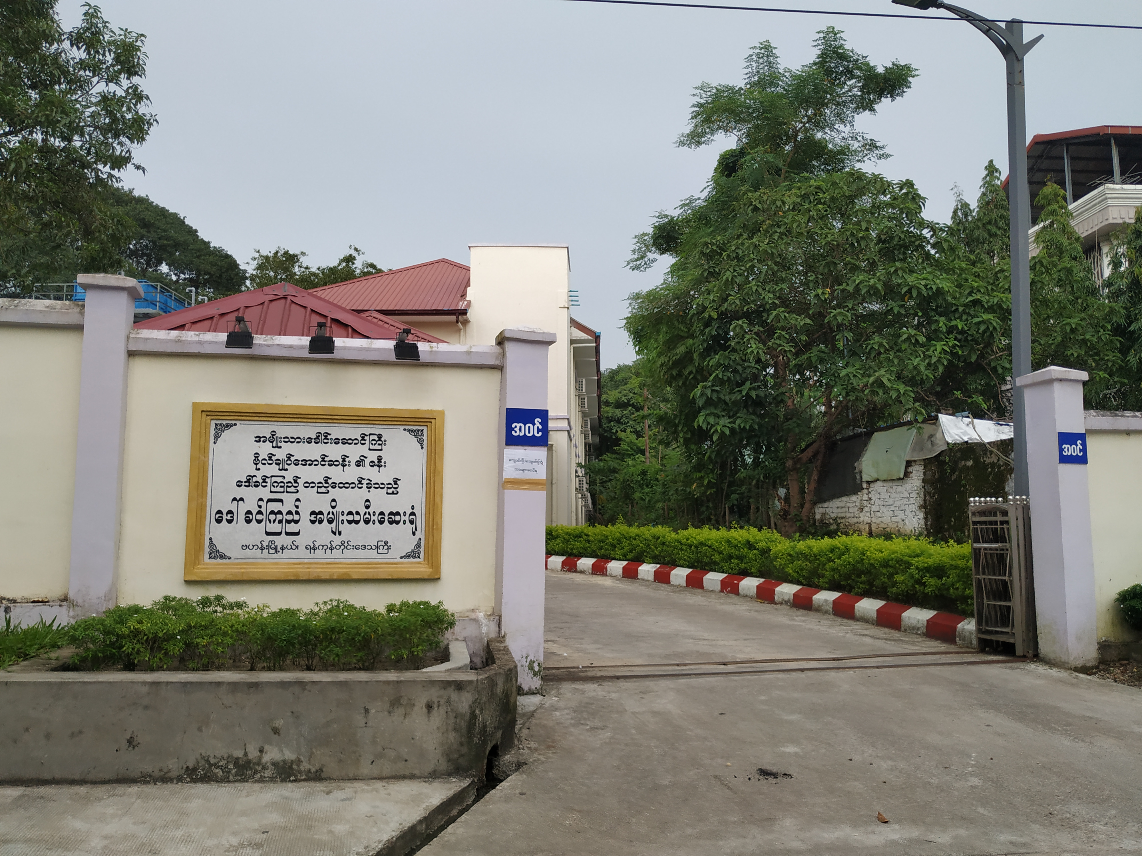 Daw Khin Kyi Women's Hospital, Bogyoke Museum Road, Bahan Township, Yangon မြန်မာဘာသာ: ဒေါ်ခင်ကြည် အမျိုးသမီး ဆေးရုံ၊ ဗိုလ်ချုပ်ပြတိုက်လမ်း၊ ဗဟန်းမြို့နယ်၊ ရန်ကုန်